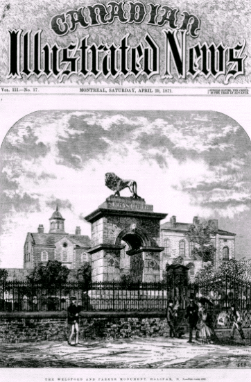 Crimean War Monument. Canadian Illustrated News 29 April 1871